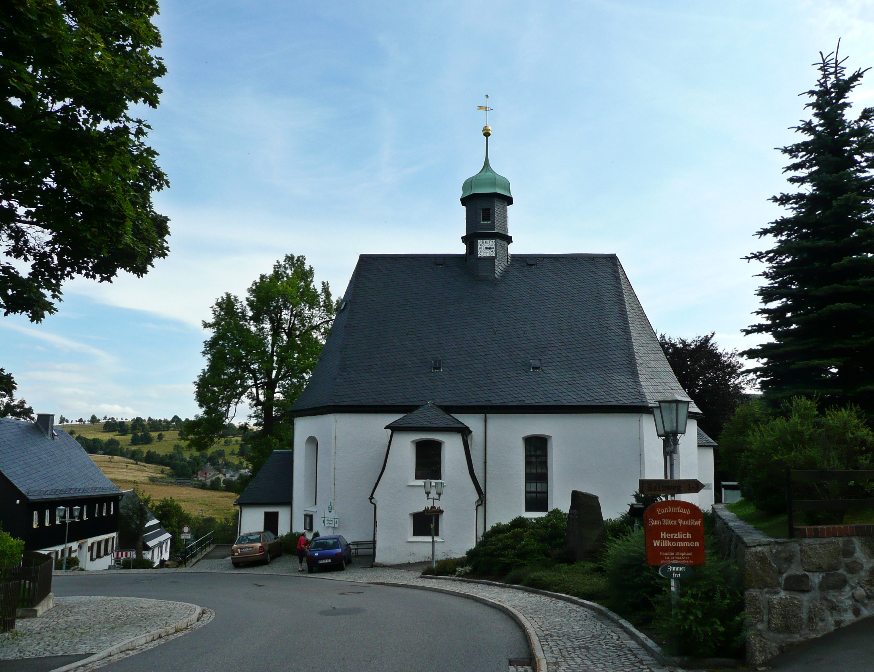 This image shows the evangelic church (built 1734/36) in Deutschneudorf in the Ore Mountains.